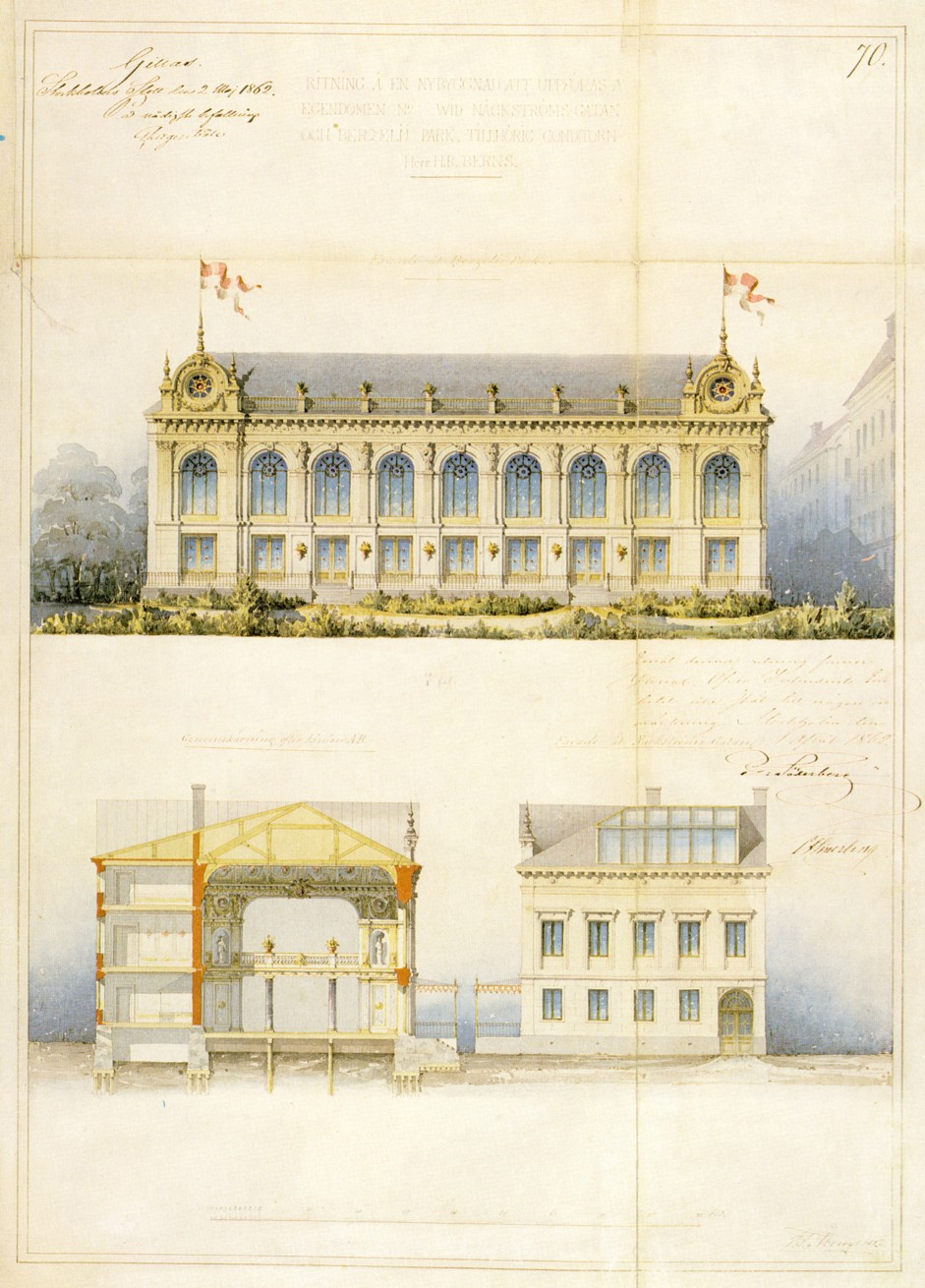 Berns salonger in Stockholm, elevation and cross section, 1862